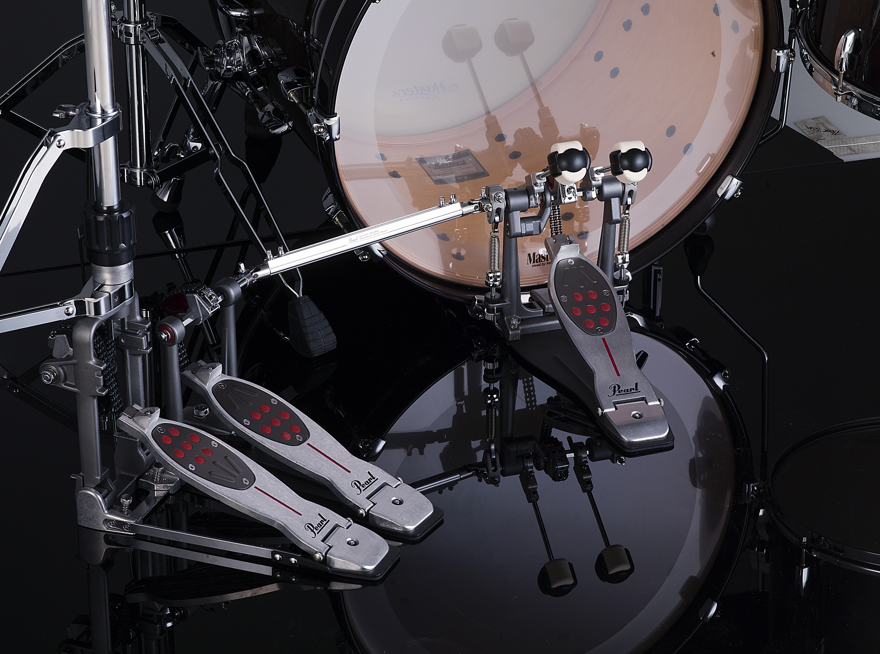 P2050C Eliminator Pedal